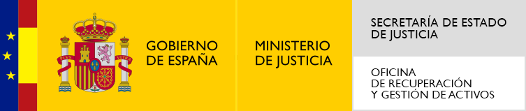 Logo of the Office of Asset Recovery and Management of Spain